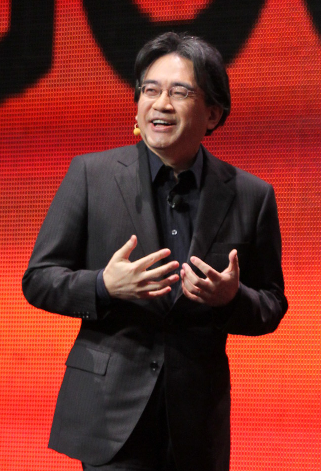 Satoru Iwata at the Game Developers Conference in 2011 (second day). This file has been extracted from another file: Satoru Iwata - Game Developers Conference 2011 - Day 2 (2).jpg